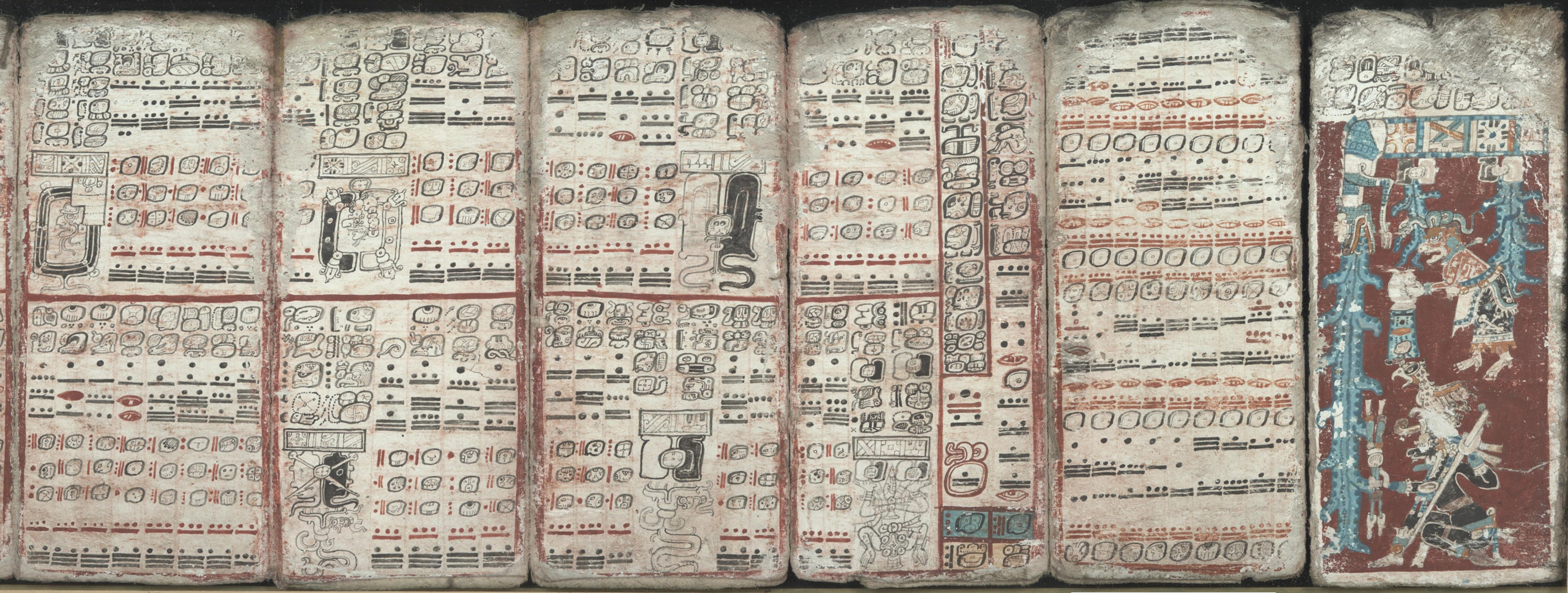 Six sheets of the Dresden Codex (pp. 55-59, 74) depicting eclipses, multiplication tables and the flood